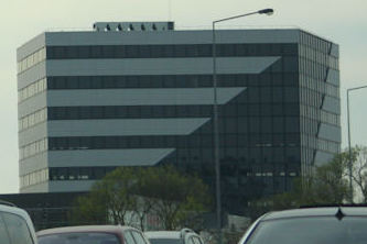 Perkūnkiemis